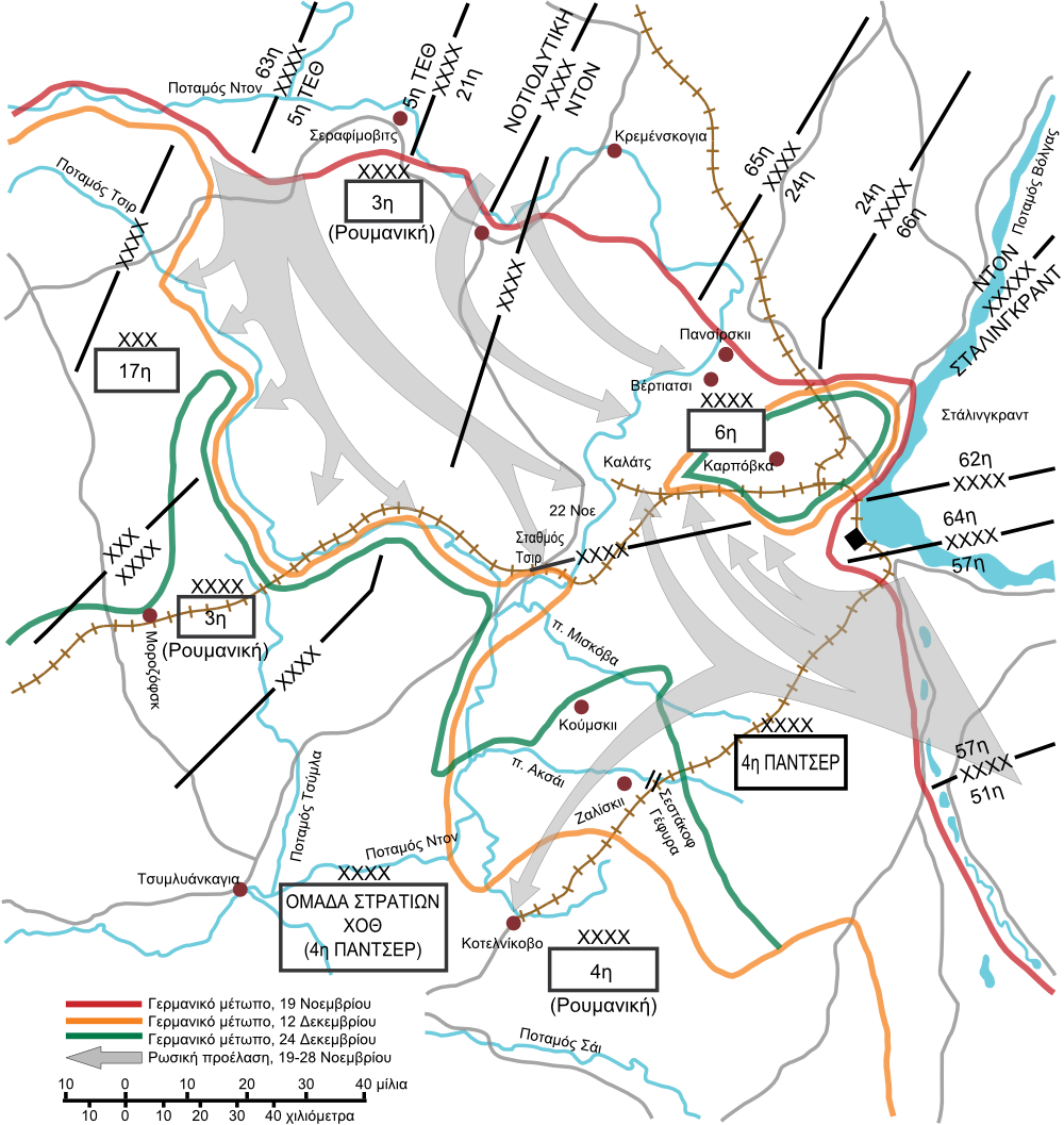 The Battle of Stalingrad (1942-1943)